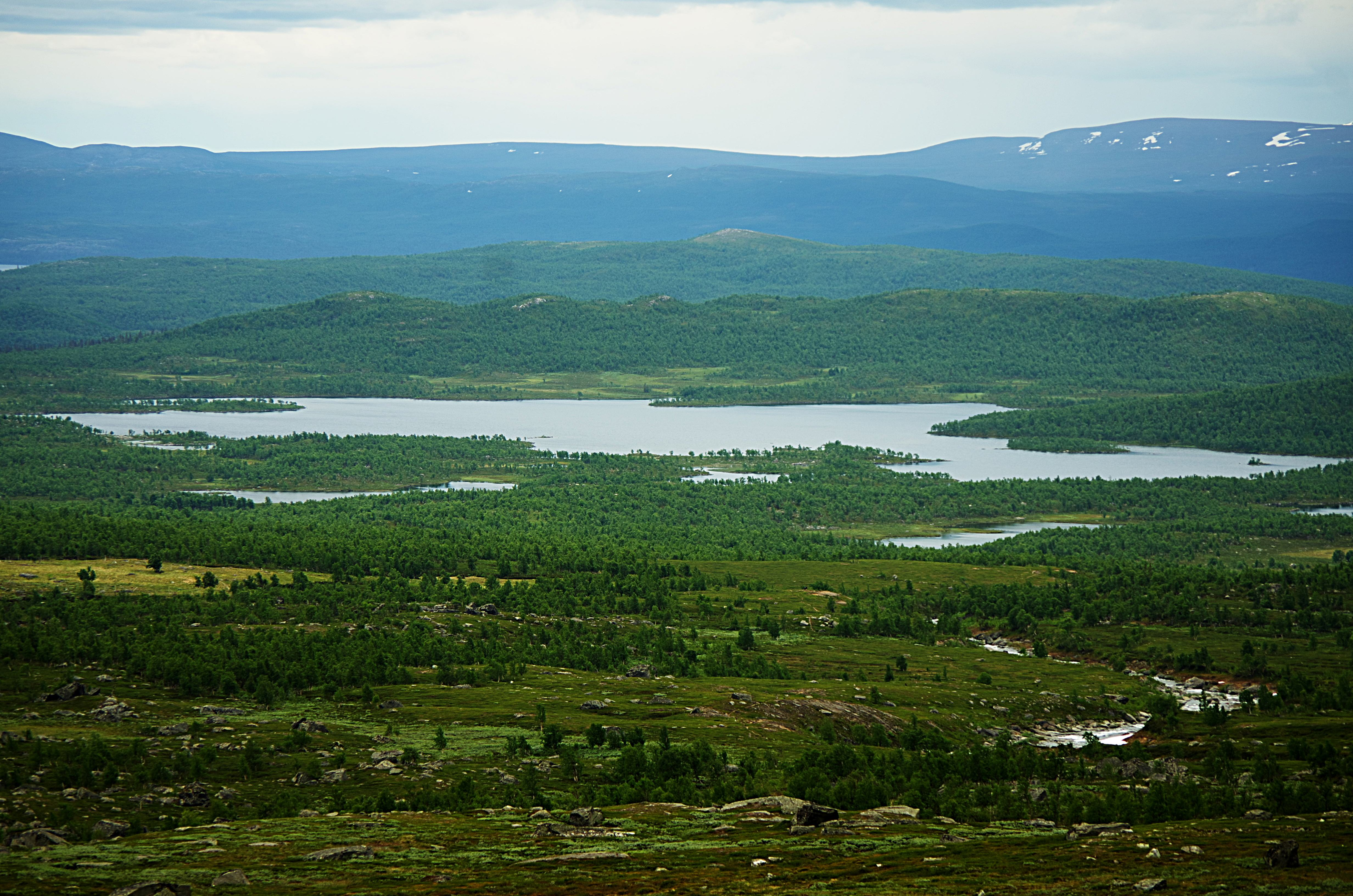 Sattermjaure (modern spelling Sáddermjávrre) is a lake in Arjeplog Municipality, Lappland, Sweden.